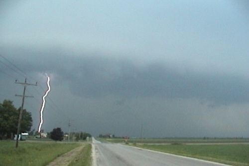 A strong squall line moving in producing lighting and distant heavy rain